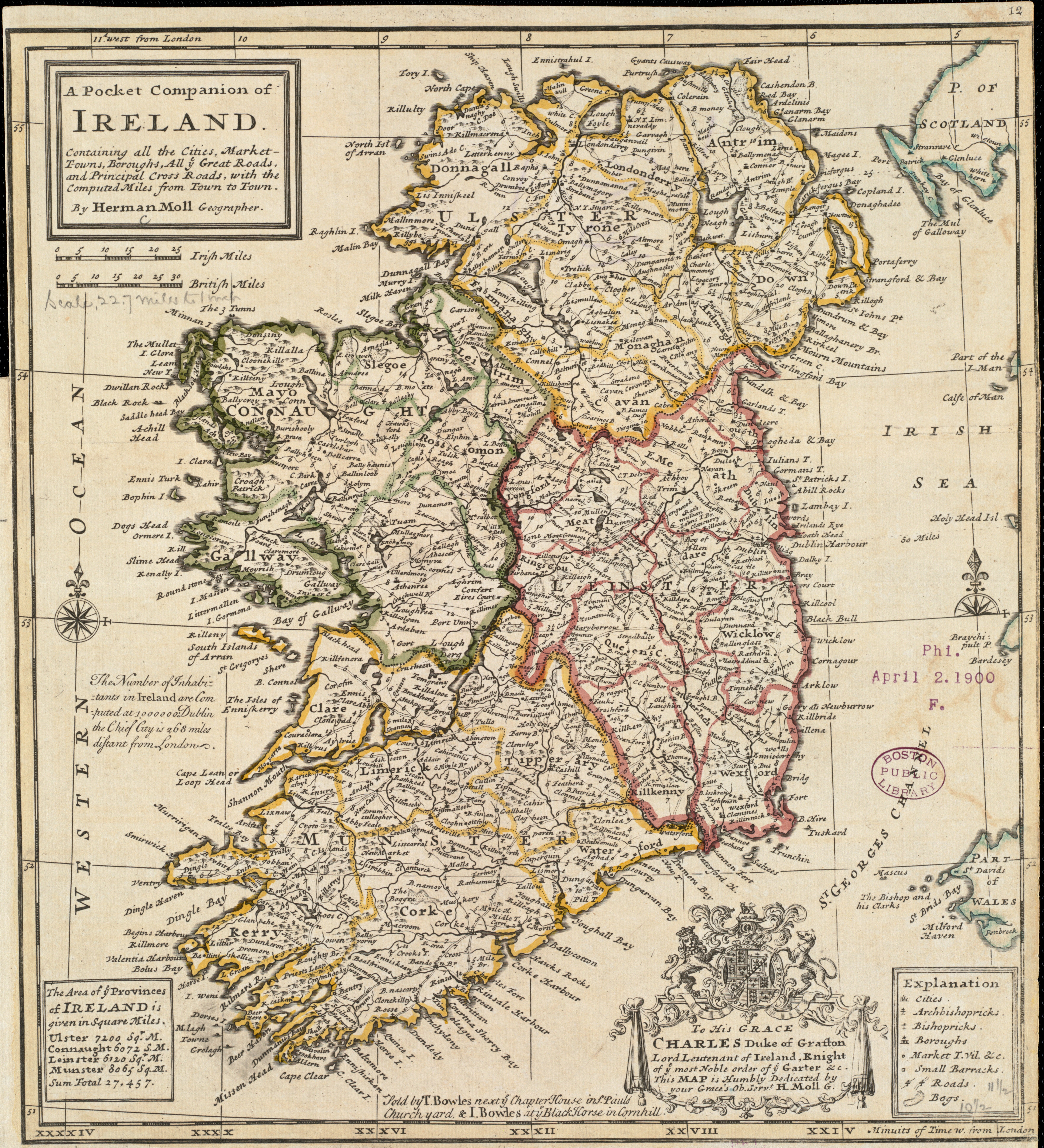 Zoom into this map at . Author: Moll, Herman Publisher: Bowles, Thomas Date: 1732 Location: Ireland Dimension: 29x27cm Scale: [ca. 1:1,700,000] Call Number: G5780 1732 .M66x